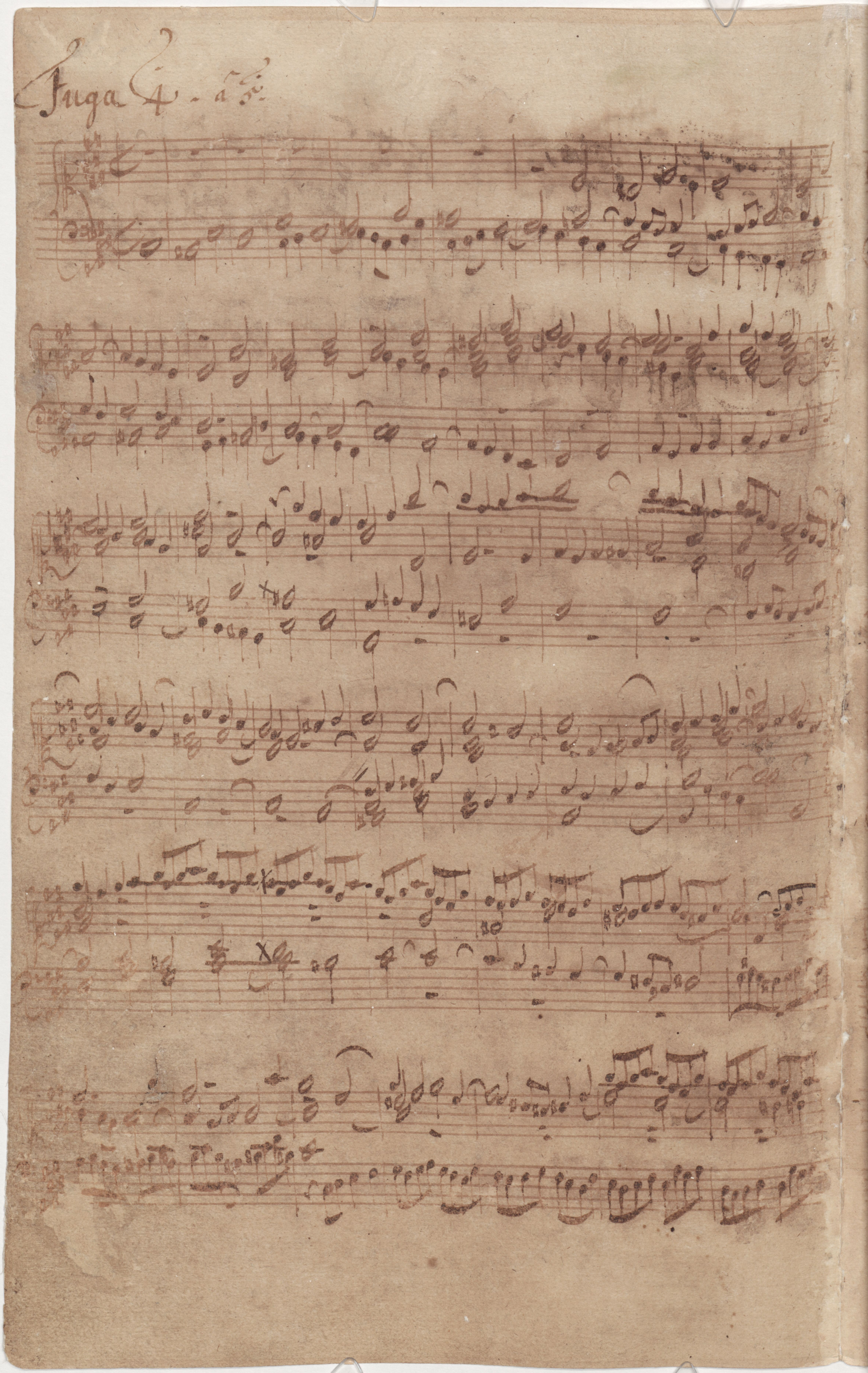 Fugue No. 4 from the first volume of The Well-Tempered Clavier, in Bach's handwriting, ms. P 415.